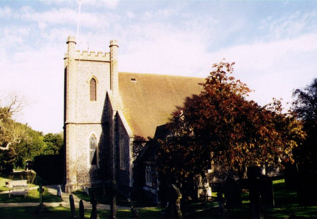 St Nicholas, Remenham Grade 2 listed building erected in the 14th century.